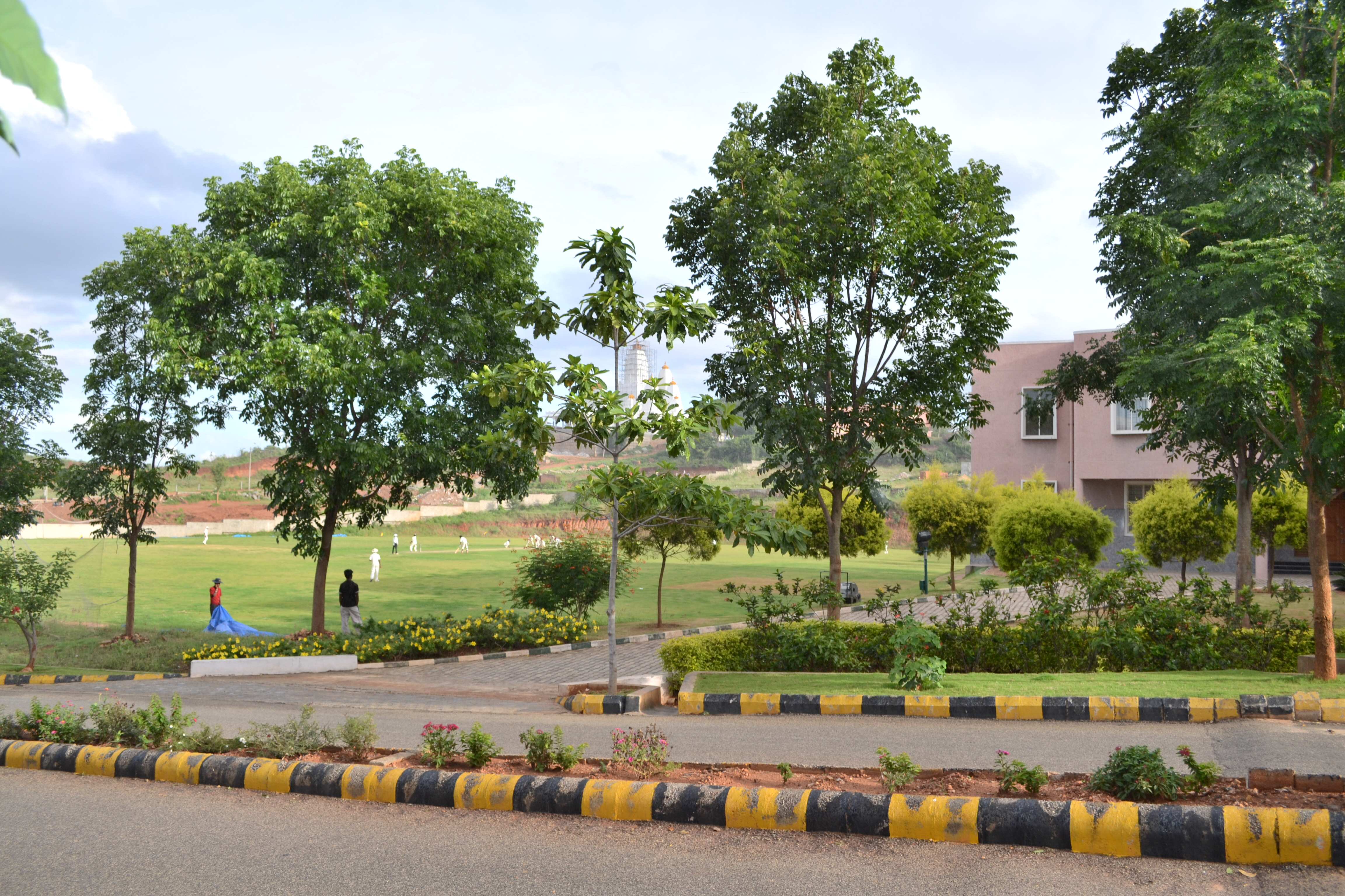 JSSATE Campus Cricket Gound